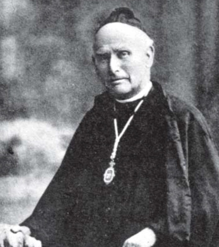 Jaume Almera i Comas (Vilassar de Mar, 1845 - Barcelona, 1919), geologist and paleontologist.